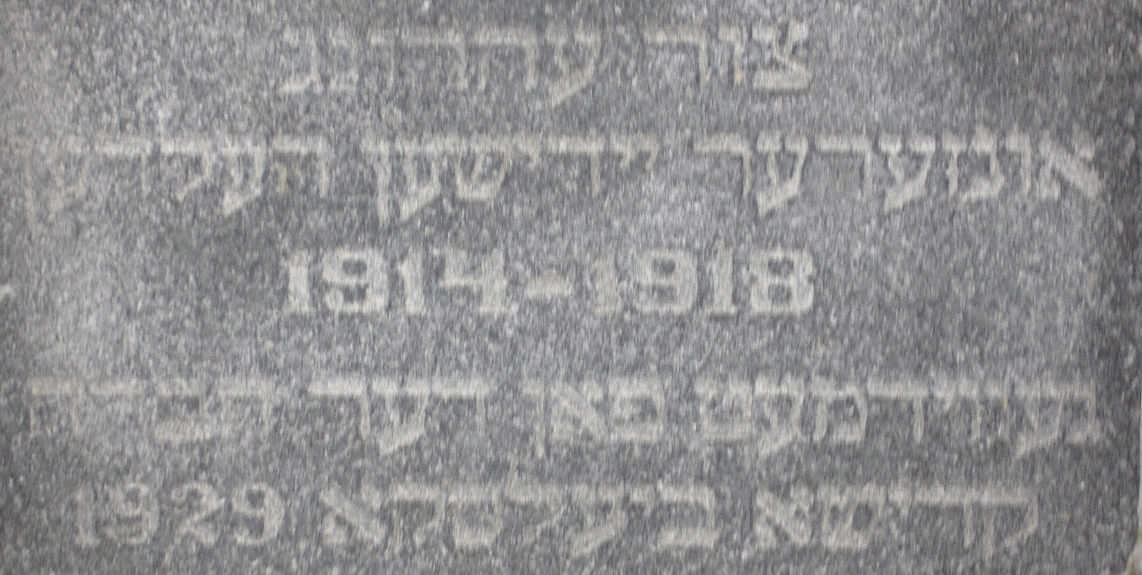 Yiddish inscription on monument of soldiers which died during World War I on jewish cemetery in Bielsko-Biała, Poland.